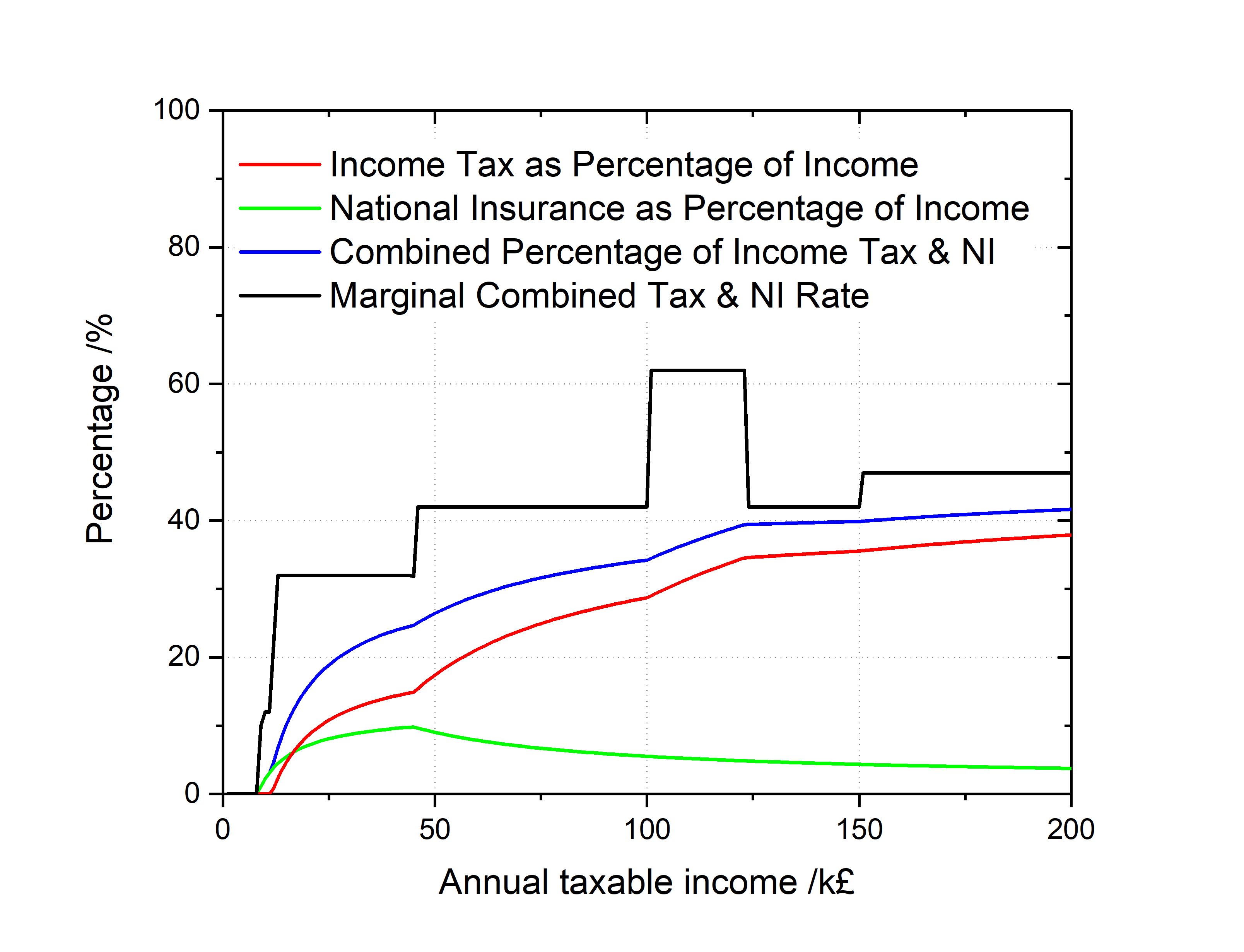 Percentages of UK income tax and National Insurance of taxable income in % for the tax year 6 April 2016 thru 5 April 2017. Also included a graph of combined marginal tax + NI rate over annual taxable income. This takes account only of straightforward income tax and Class I employee NICs without contracted-out pension contributions. Made in Origin(Software). According to HMRC, the tax and National Insurance rates and allowances for 2016/17 are: Income tax (per annum) Up to personal allowance, 0%: £11,500 pa. Basic rate, 20%: First £33,500pa above personal allowance. Higher rate, 40%: 33,500 to 150,000 pa above the personal allowance. Additional rate, 40%: Everything more than £150,000pa above the personal allowance. Personal allowance redeuced by 1£ per every 2£ earned above 100,000pa. National Insurance contributions (per annum) Up to primary threshold, 0%: £8,164pa. Up to 'upper earnings limit', 12%: First £36,860pa above the primary threshold. Above 'upper earnings limit', 2%: Everything more than £36,860pa above the primary threshold.